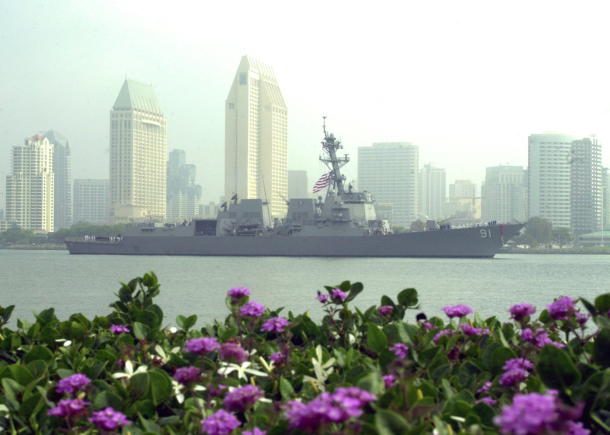 Coronado, Calif. (May 5, 2004) - The Navy’s newest guided missile destroyer PCU Pinckney (DDG 91) sailed past downtown San Diego for the first time on the way to its homeport Naval Base San Diego. Pinckney’s commissioning ceremony will be held May 29, 2004 at Port Hueneme, Calif., when it will officially become a United States Ship (USS). The ship is named in honor of Navy Cook 1st Class William Pinckney, who received the Navy Cross for his courageous rescue of a fellow crew member aboard USS Enterprise (CV 6) during the Battle of Santa Cruz Island October 26, 1942. U.S. Navy photo by Photographer’s Mate 1st Class Daniel N. Woods. (RELEASED)